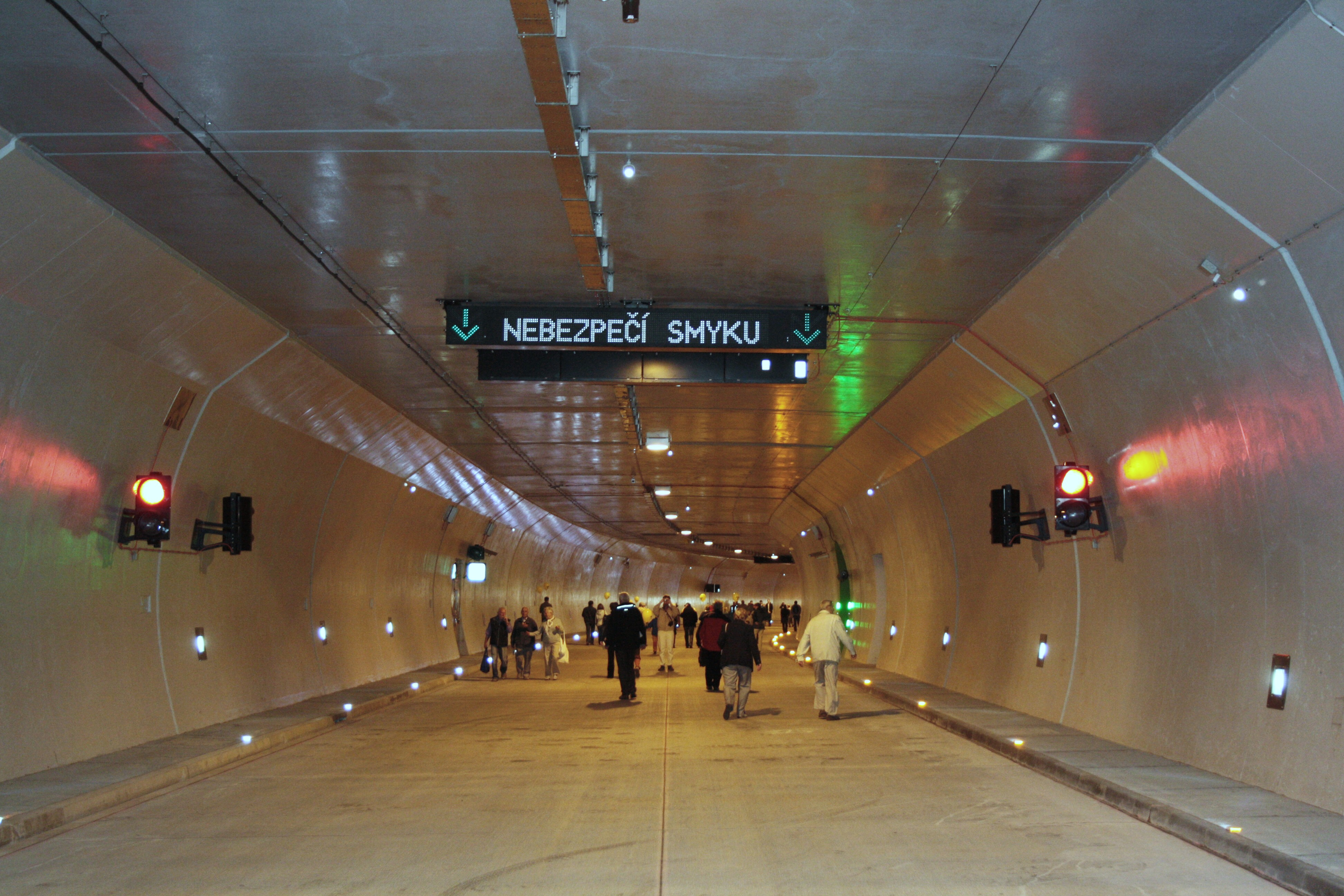 Open doors day in Královo Pole Tunnel, Brno, Czech Republic This photograph was taken with a DSLR from WMCZ's Camera grant.